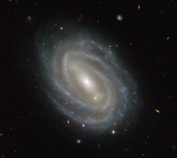 Image of PGC 54493 cropped from